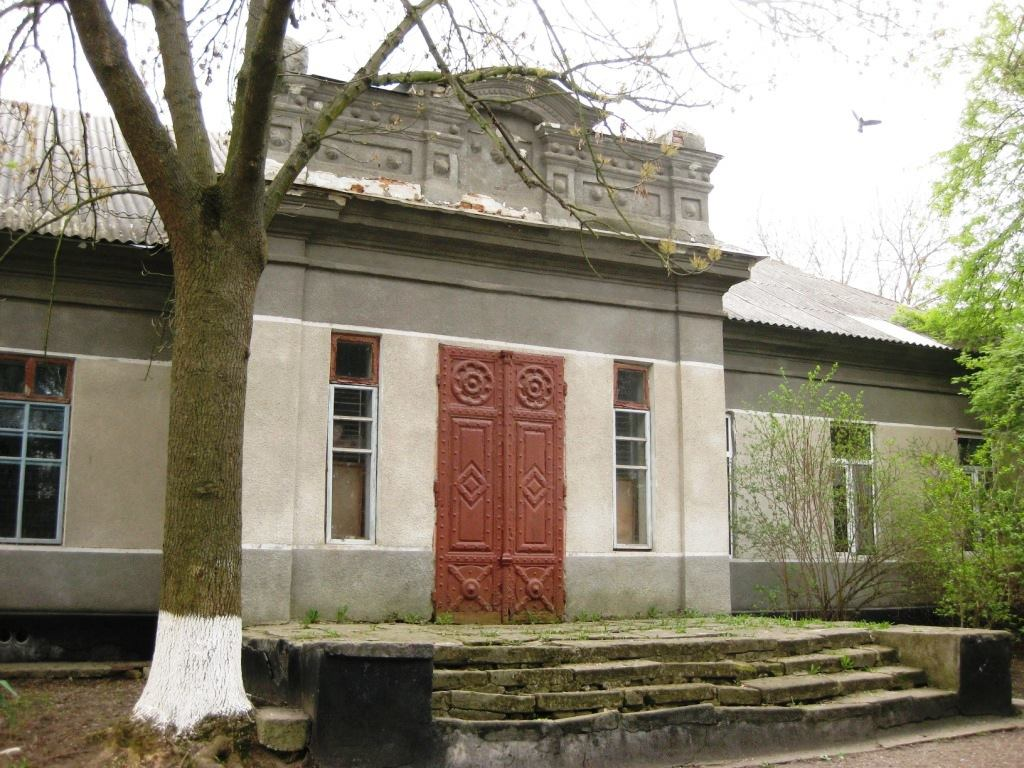 Image of Vinogradski mansion in Iarova, Soroca DistrictRomână: Vedere a conacului Vinogradski din Iarova, raionul Soroca